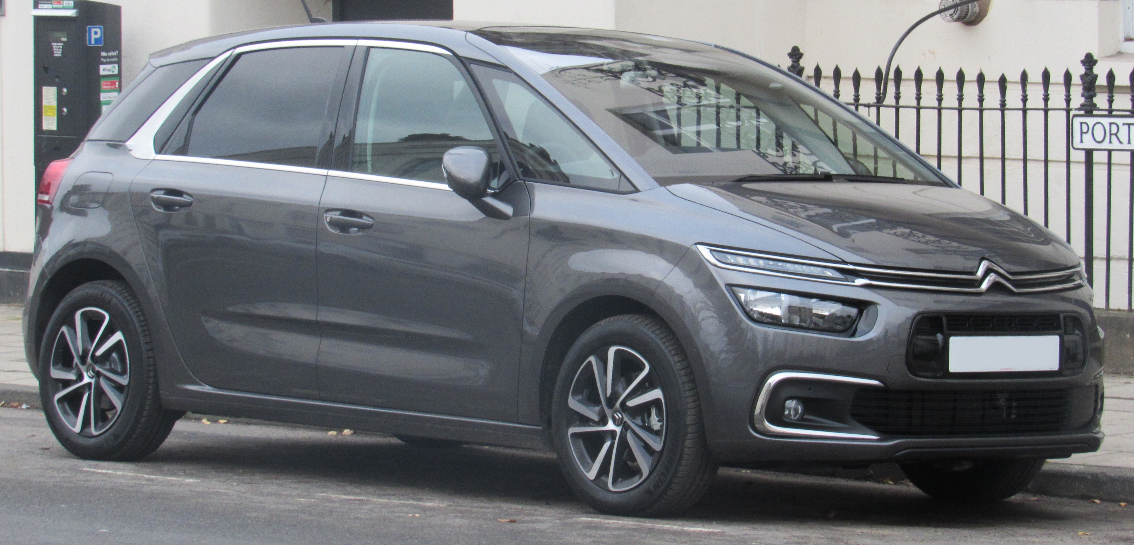 2017 Citroen C4 Picasso Flair Puretech facelift 1.2 Taken in Leamington Spa